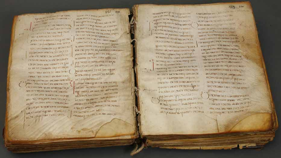 Shatberdi manuscript